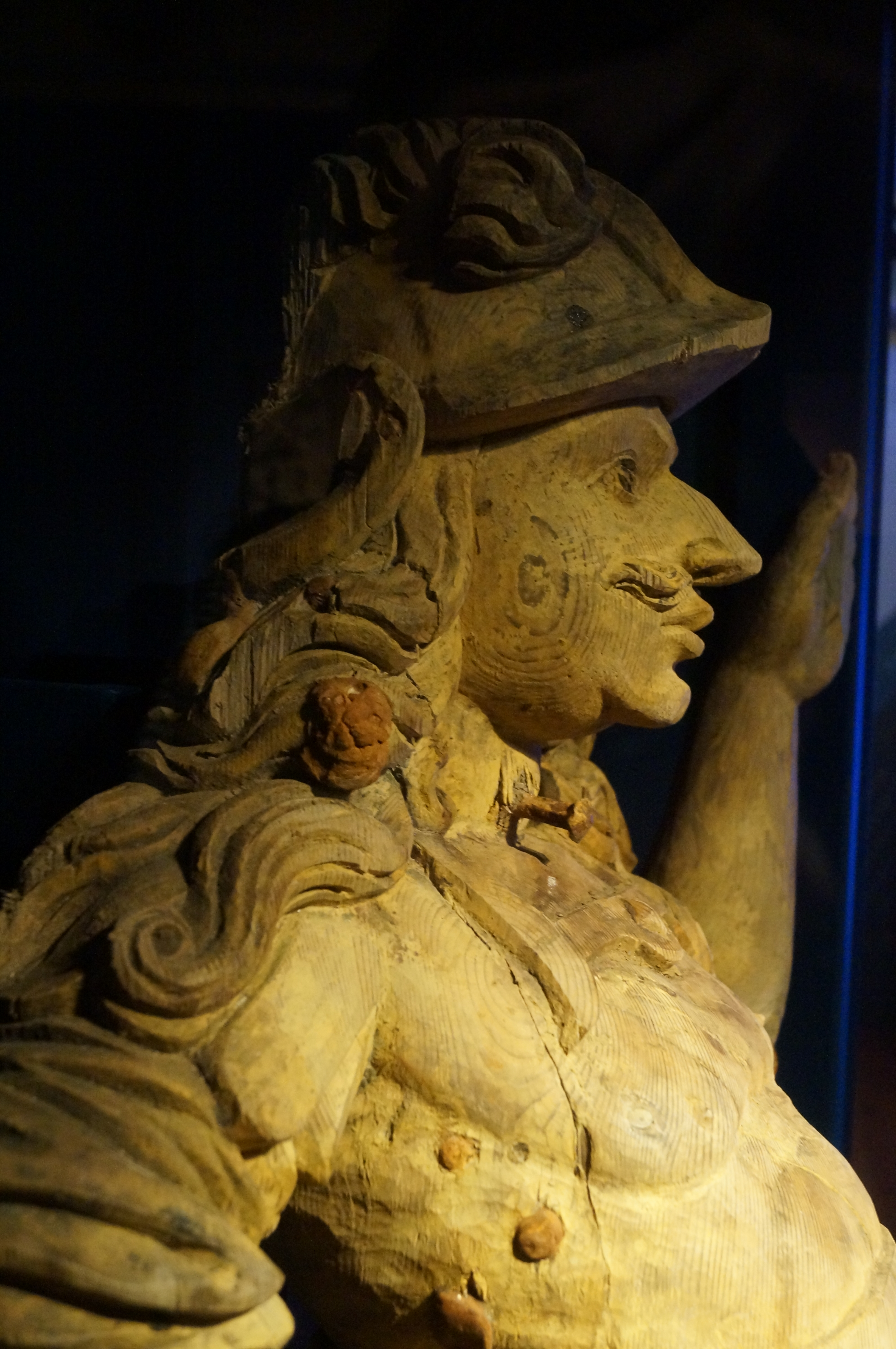 Decorations on the ship Kronan. Exhibited at Kalmar läns Museum. Was found well-preserved in protective clay under the port side of Kronan. Probably pictures Charles X Gustav of Sweden in the form of a Roman triumphator.